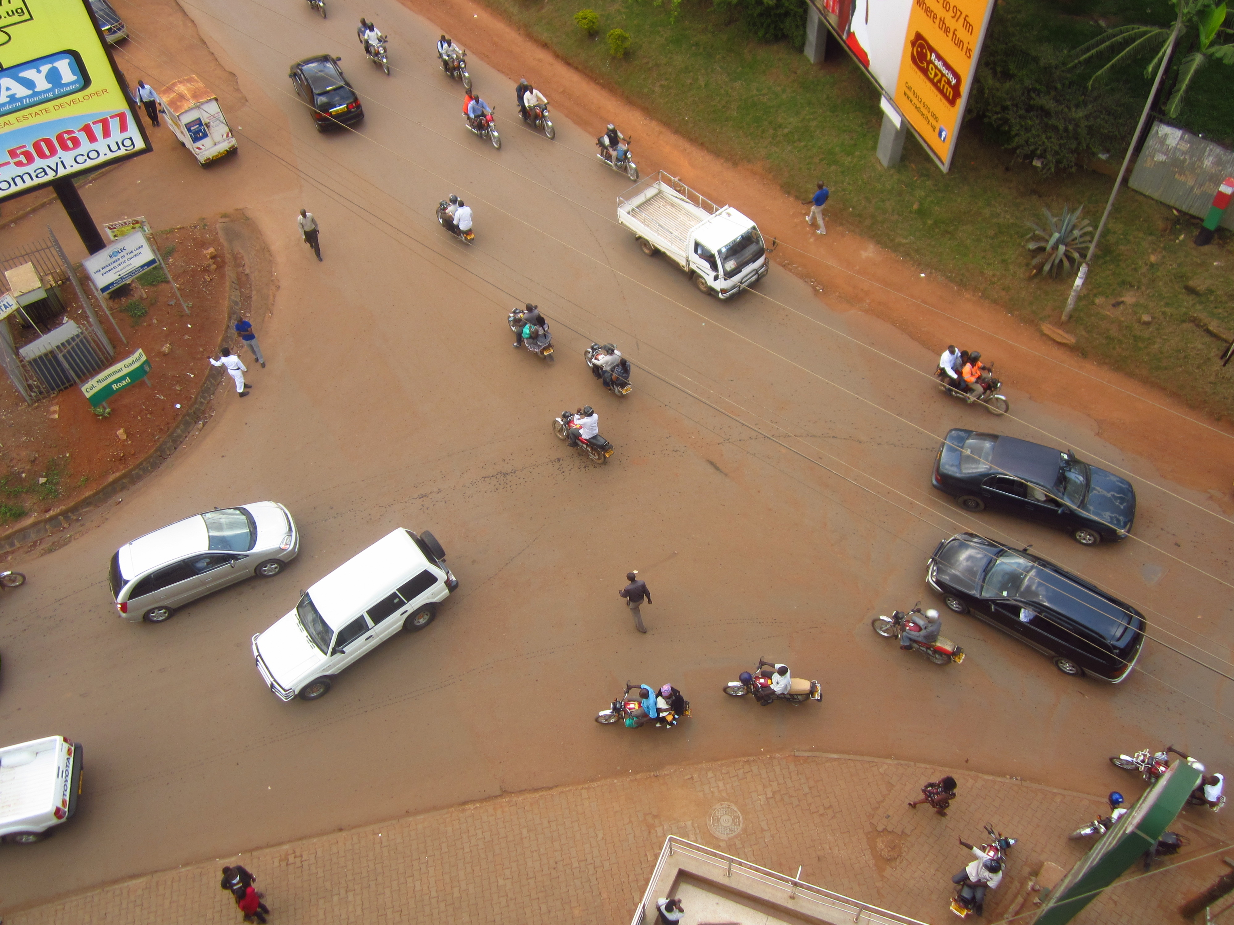 This is an image with the theme "Africa on the Move or Transport" from: Uganda